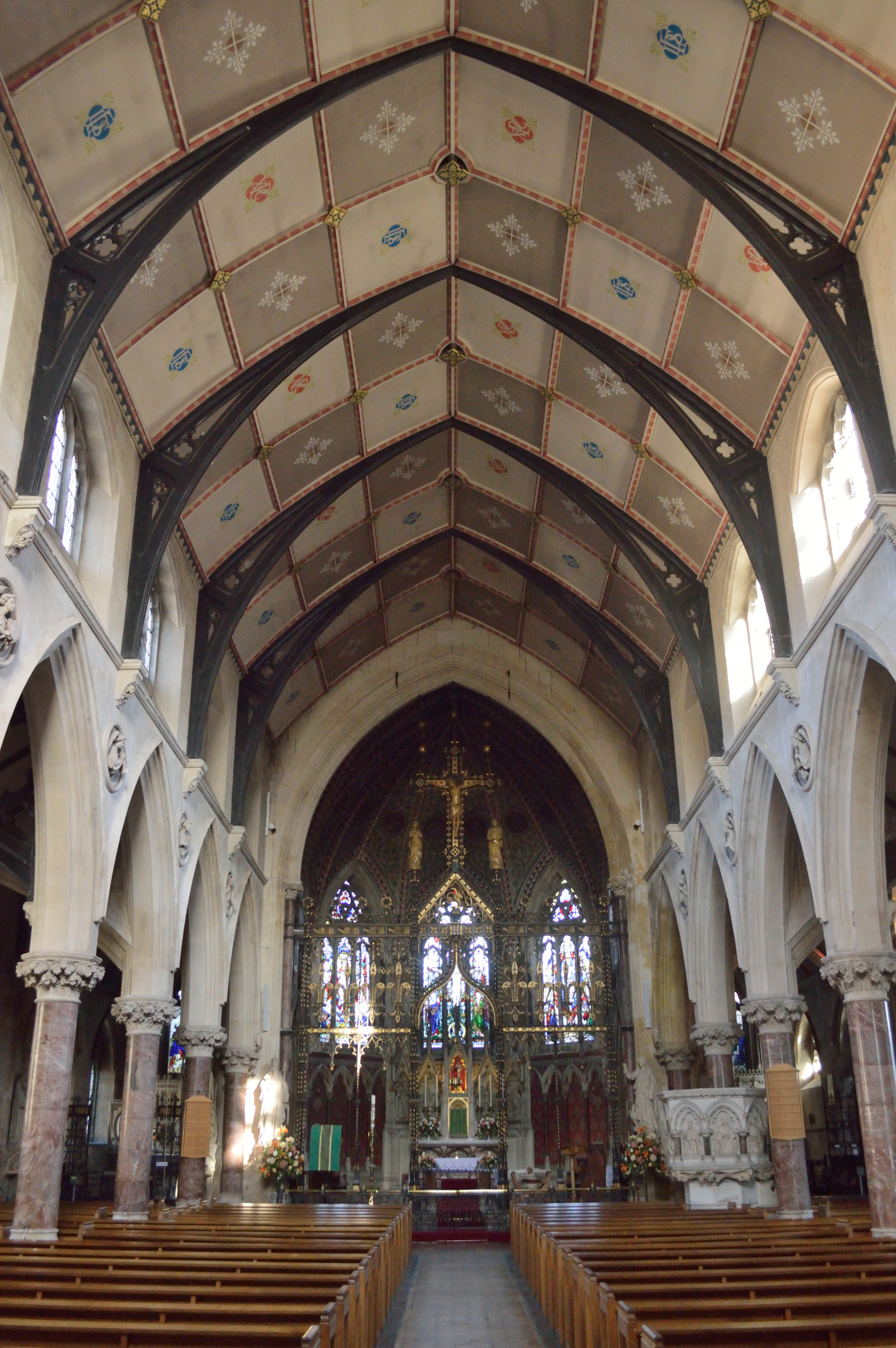 Saint John the Evangelist Church, Bath, interior.